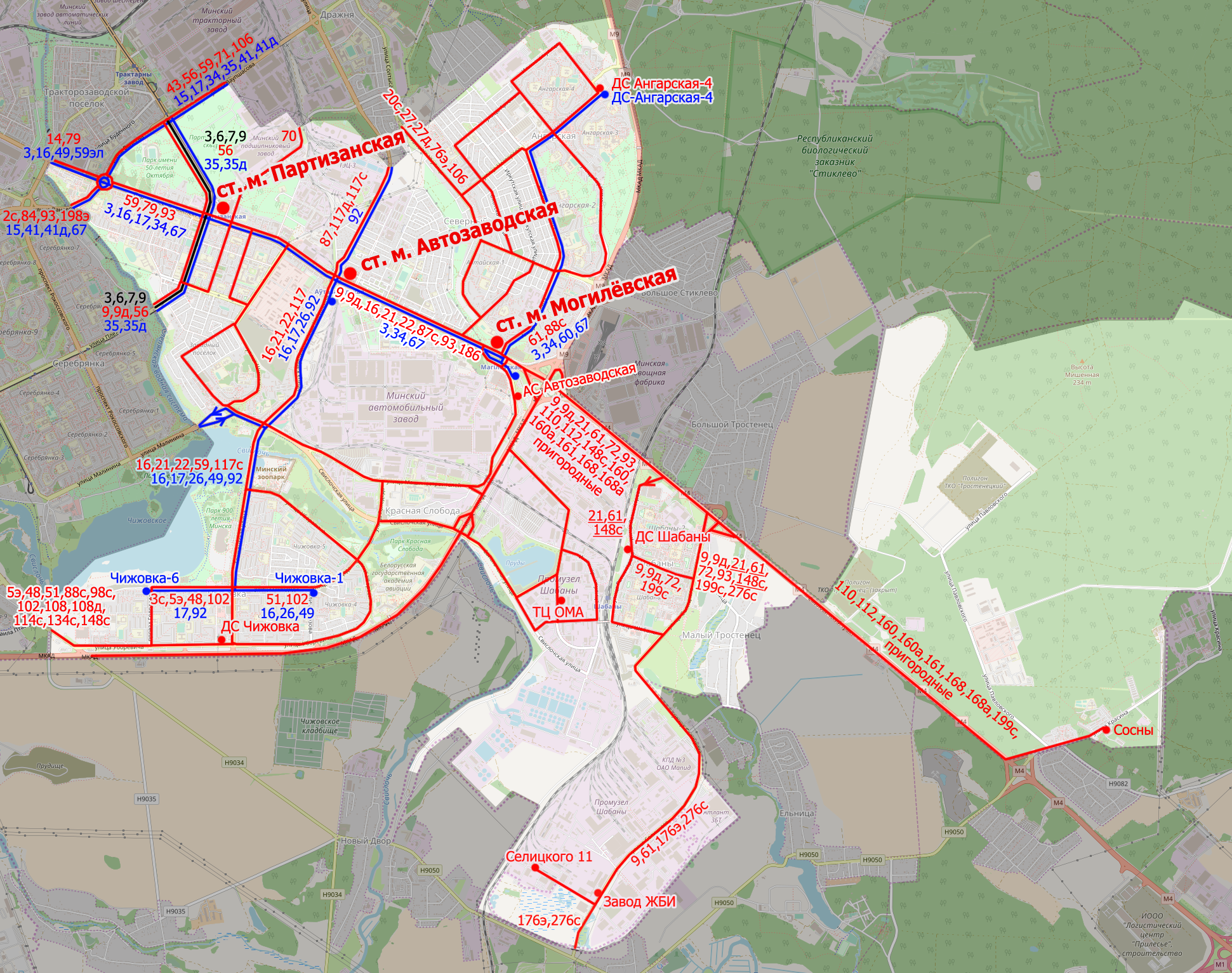 Public transport in Zavodski district (Minsk, Belarus). Buses and metro are in red, trolleybuses are in blue, trams are in black.